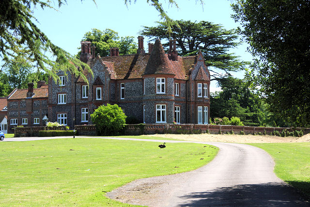 Bradfield Hall This historic house in the village of Bradfield Combust has been converted into 17 flats and apartments.